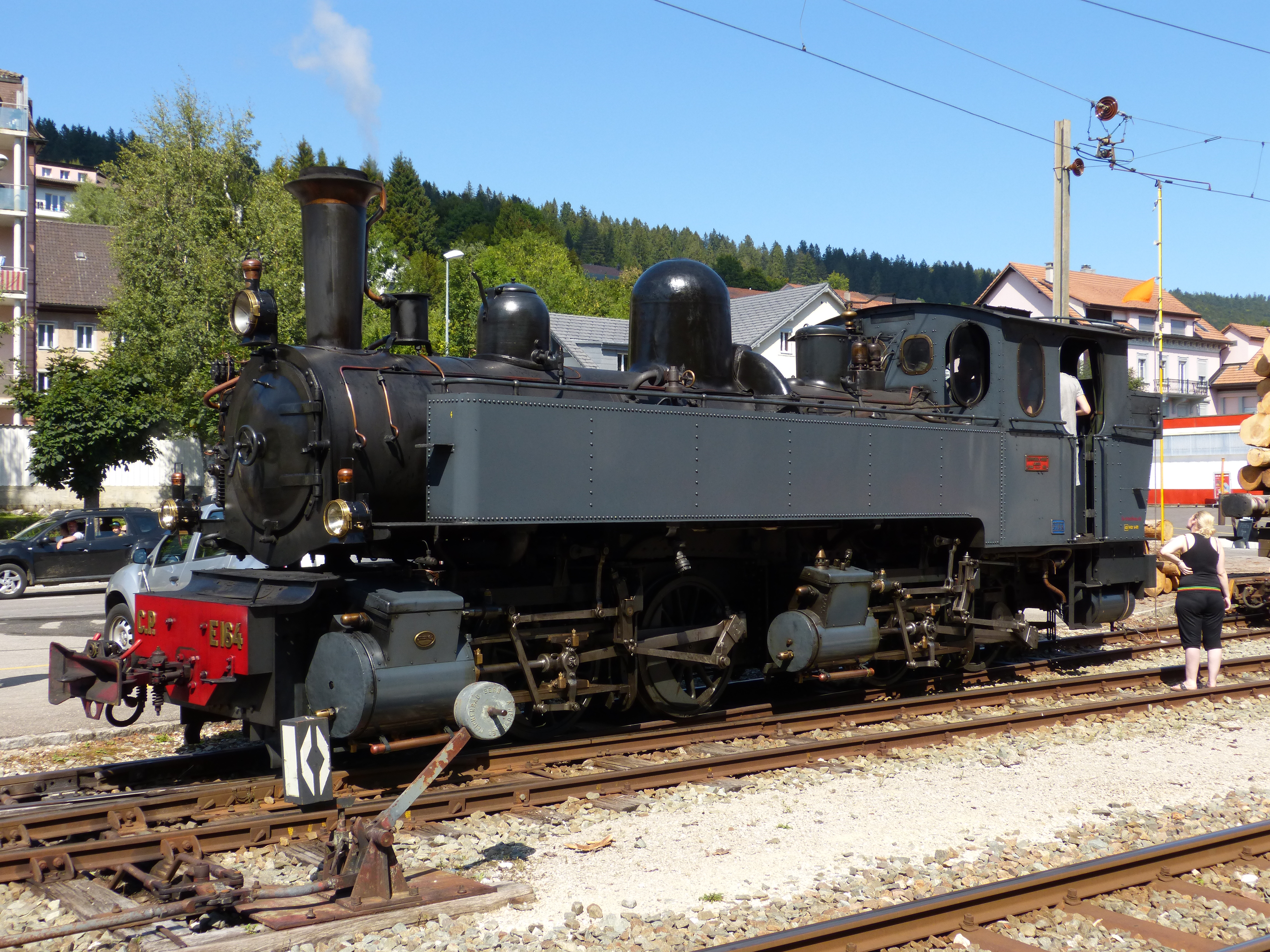 Locomotive CP 164 E of the association La Traction (prev. Comboios de Portugal) at the railway station of Tramelan, Berne.